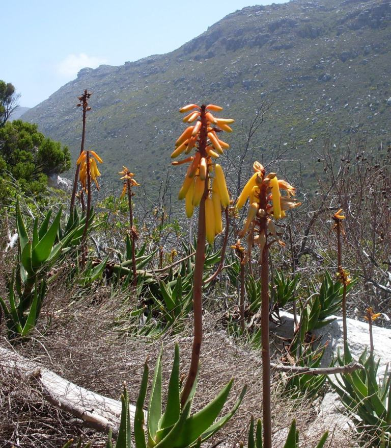 Rare Aloe commixta in Silvermine mountains in Cape Town. Re appearance after clearing of invasive Rooikrans and Port Jackson.